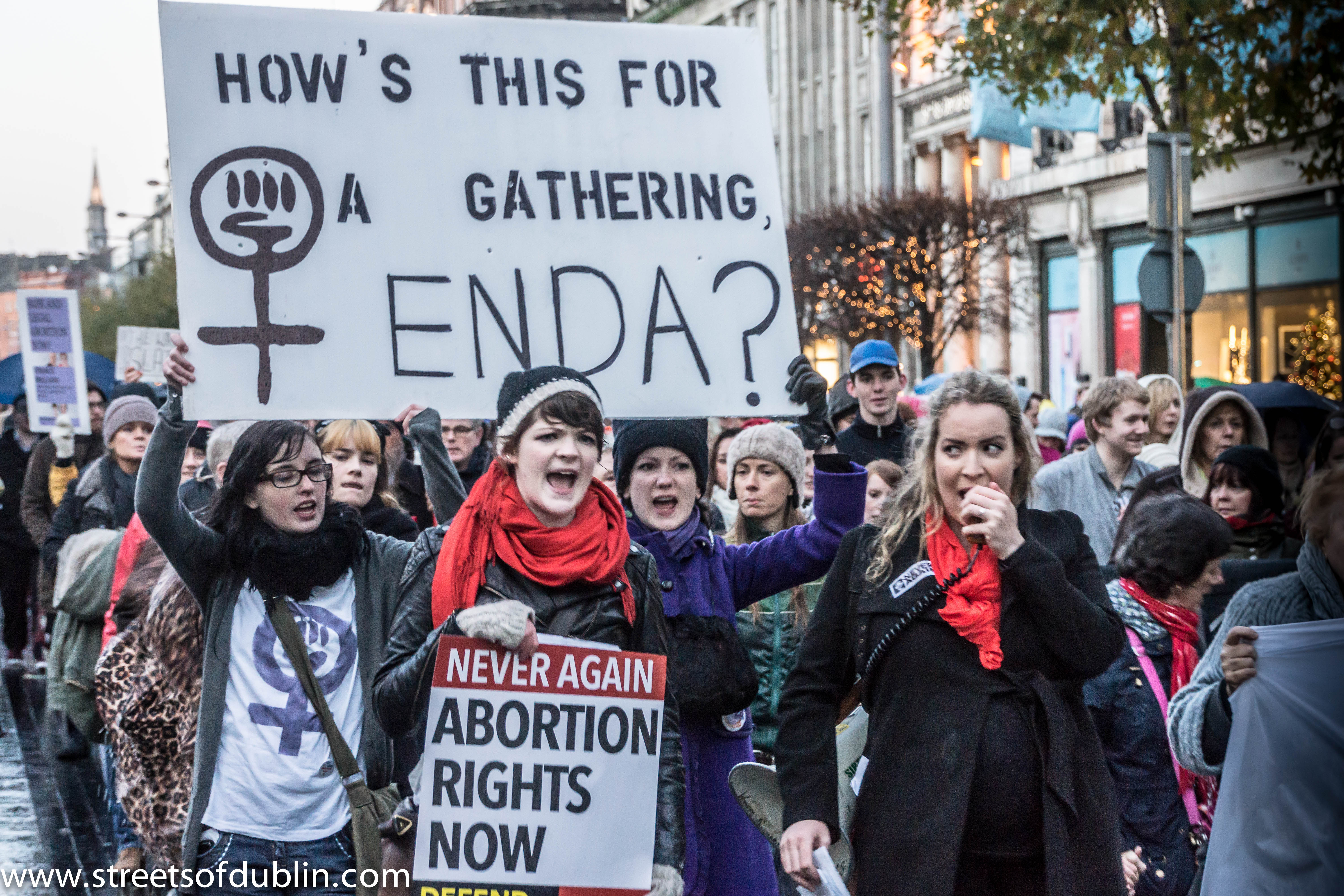 Today a large number of protesters took to the streets of Dublin in response to the unfortunate death of an Indian woman who was refused an abortion. The 31-year-old woman died following a miscarriage at University Hospital Galway. The story behind my photographs has been well reported by international media including CNN, the BBC World Service, Channel 4 News, Sky News, the Sydney Morning Herald, France 24 and New Delhi Television (to mention but a few). Zeenews New Delhi: "The death of an Indian dentist in Ireland, whose life could have been saved through an abortion on Thursday sparked outrage in India with political parties terming it as a violation of human rights while her parents demanded an international probe" Halappanavar's parents demanded an "international probe" and said Irish law on abortion should be changed. "Only following rules, what about humanity? They killed my daughter to save a foetus. Only a mother knows the pain," said Halappanavar's mother, while her father urged the government to act accordingly. There is another protest scheduled for Wednesday in Dublin.